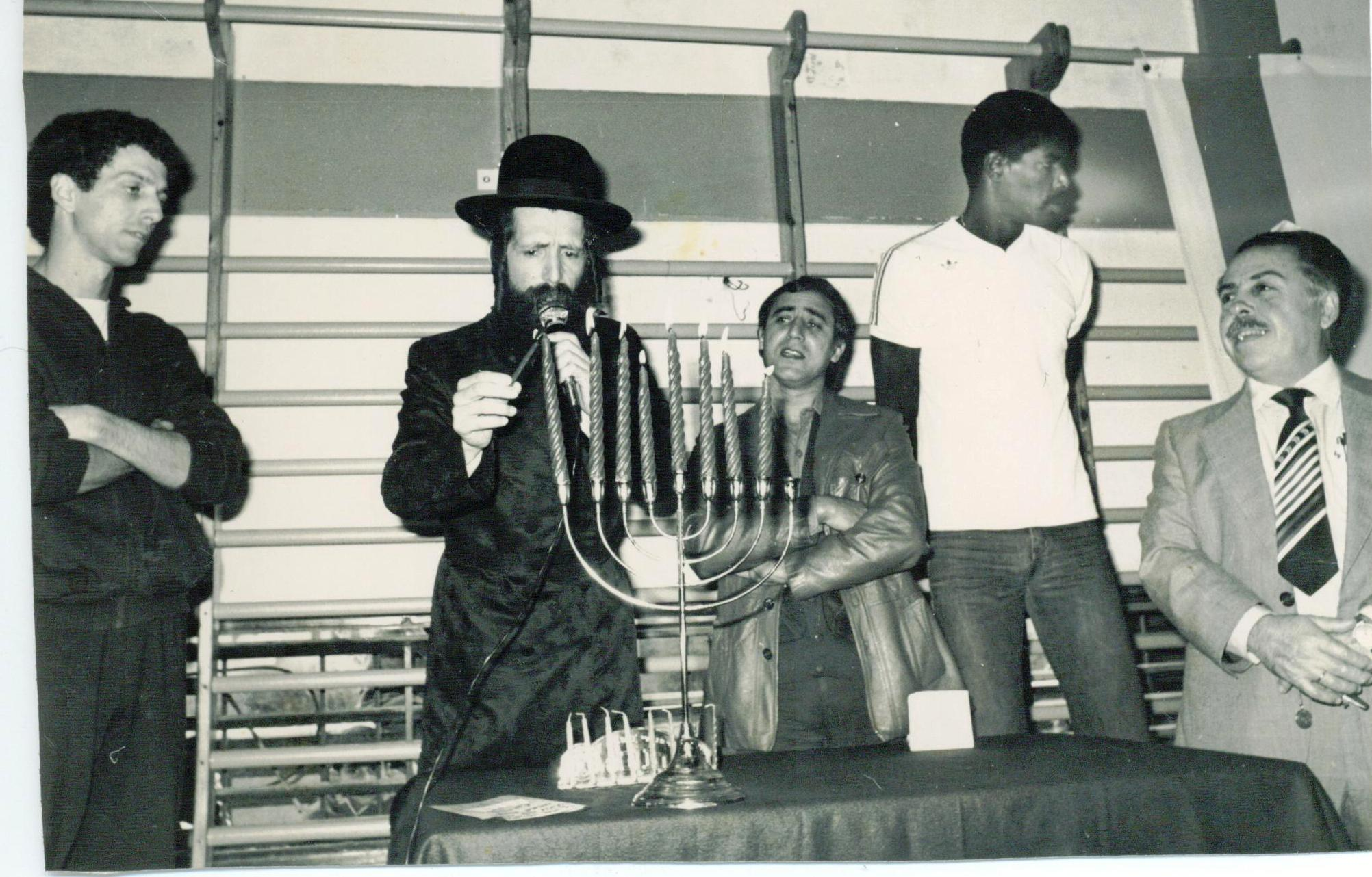 Events in Israel